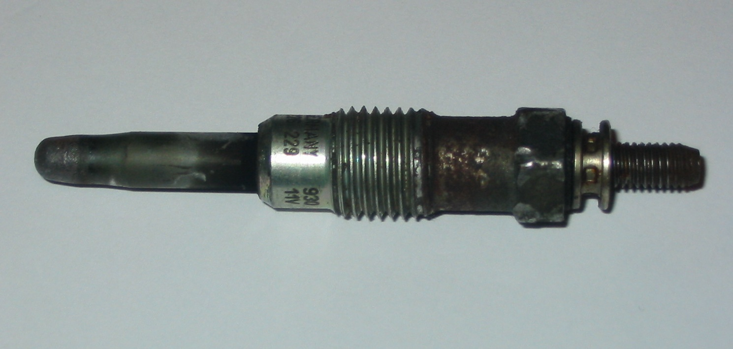 Glow plug, from a Diesel engine.